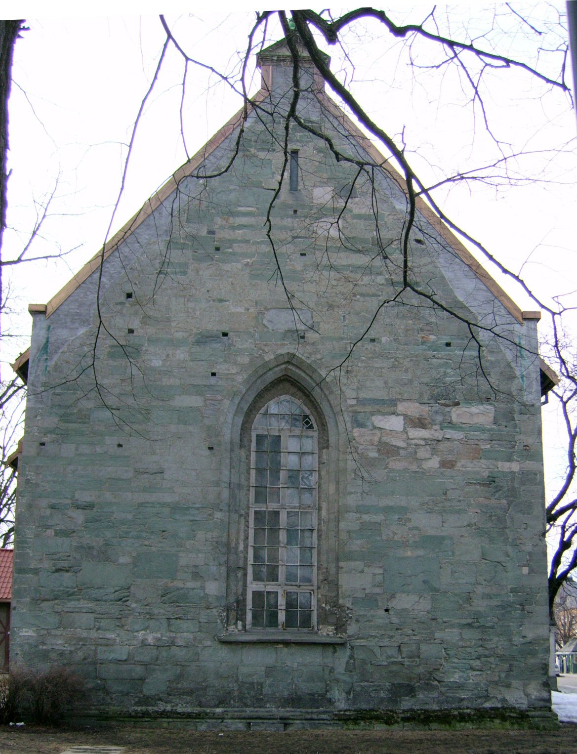 Our Lady's church, Trondheim, Norway, view from the east